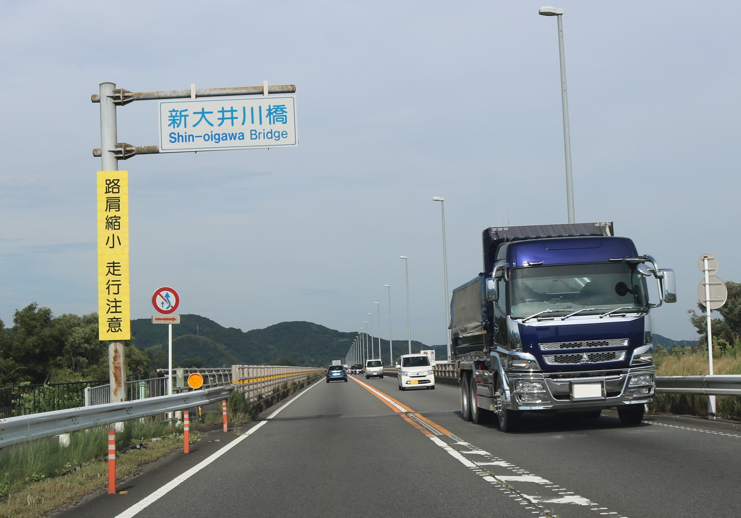 Shinoigawa Bridge of ShimadaKanaya Bypass (Route 1) over Oi River in Shimada, Shizuoka Prefecture, Japan.